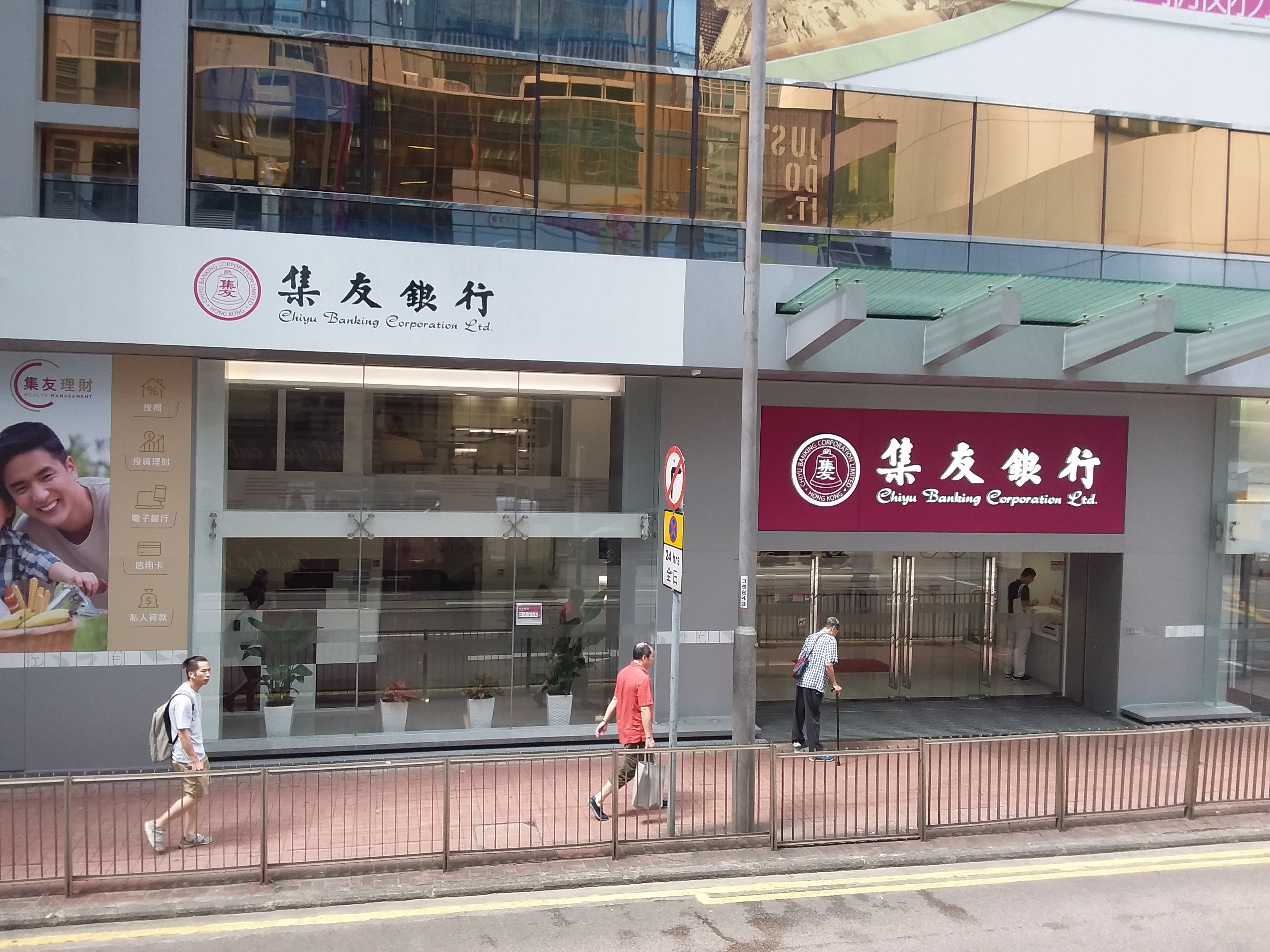 HK 中環 Central District 德輔道中 Des Voeux Road Central in September 2019